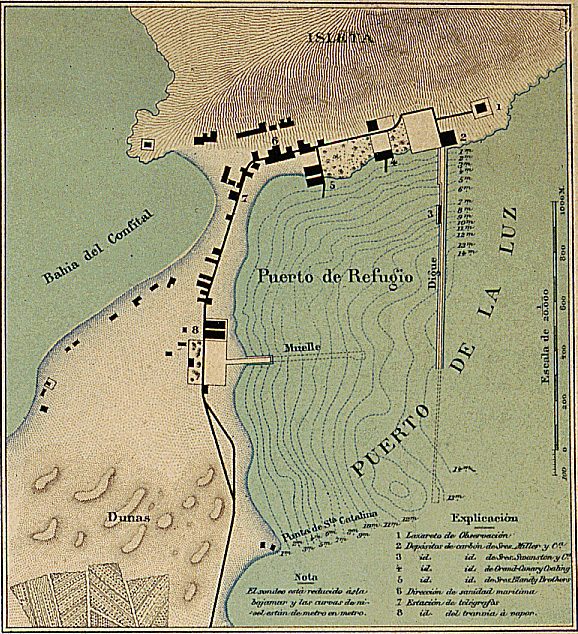 La Luz Harbour in Las Palmas de Gran Canaria (Canary Islands, Spain). Map of 1895.